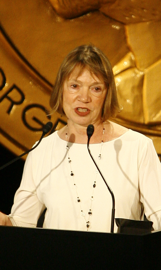 69th Annual Peabody Awards Luncheon Waldorf=Astoria Hotel New York, NY USA May 17, 2010